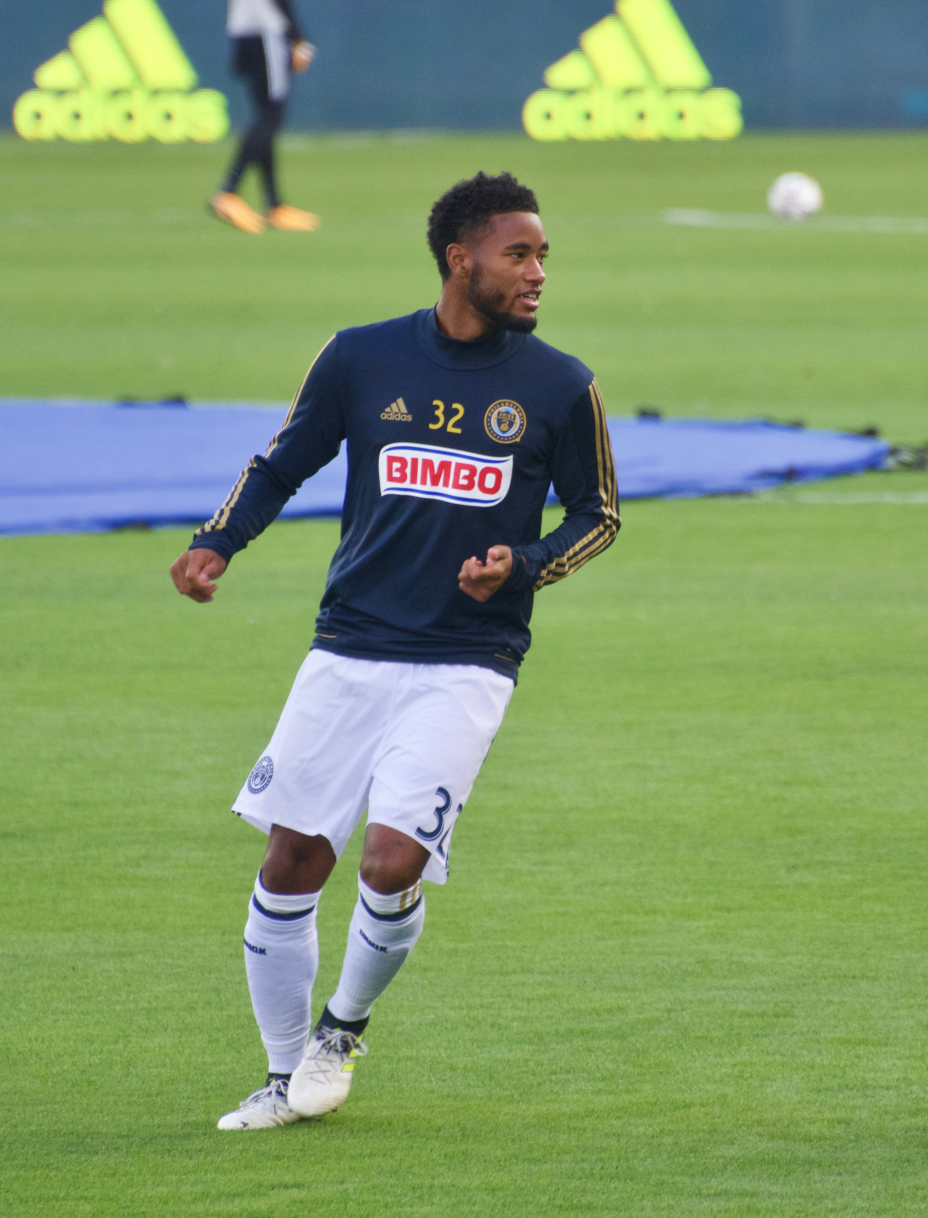 Giliano Wijnaldum warming up for Philadelphia Union at Avaya Stadium on 19 August 2017.